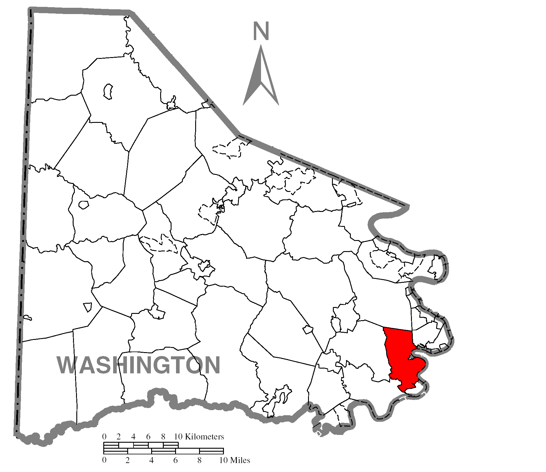 Map of Washington County higlighting California.